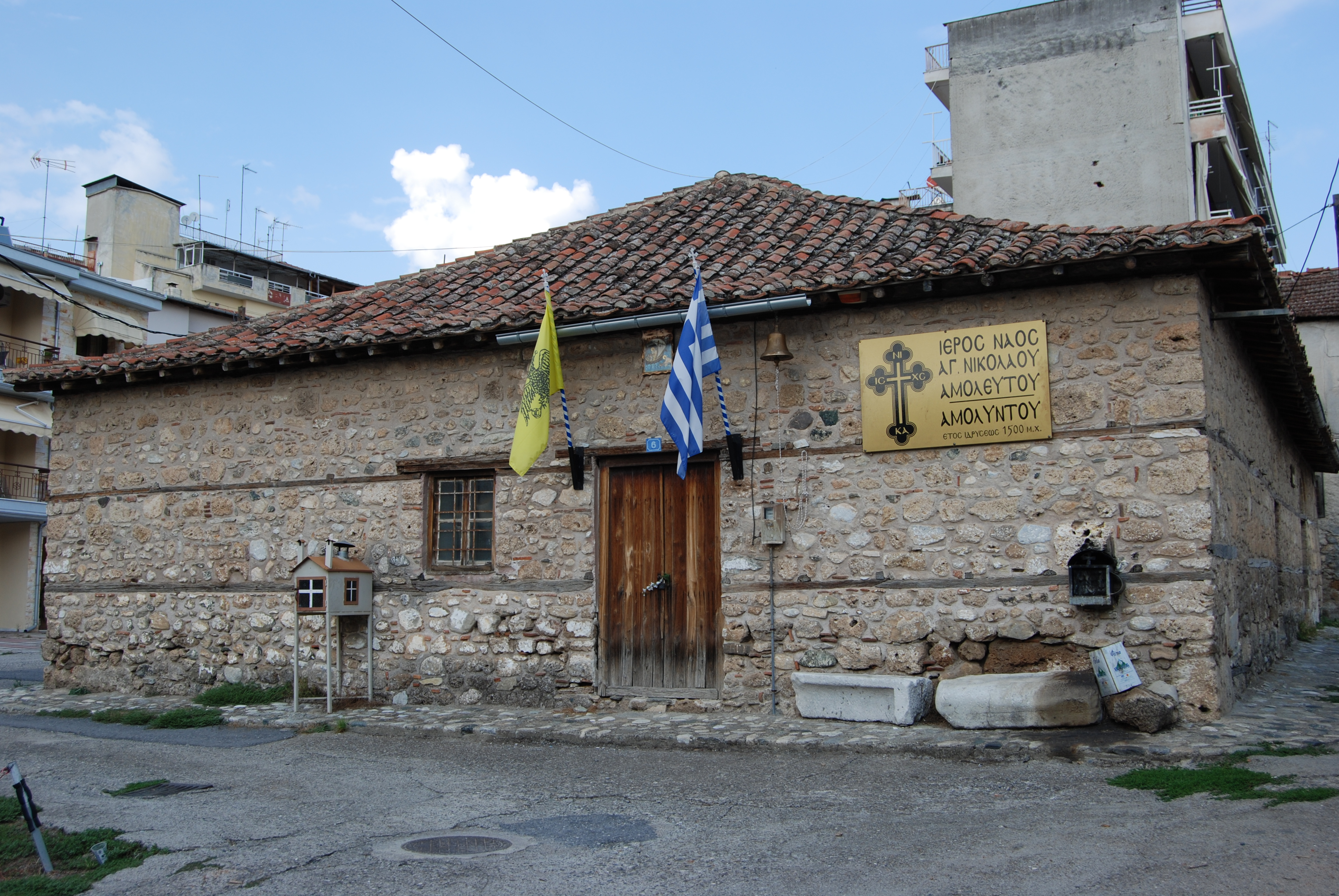 St. Nikolaos Kalokrata, Ber